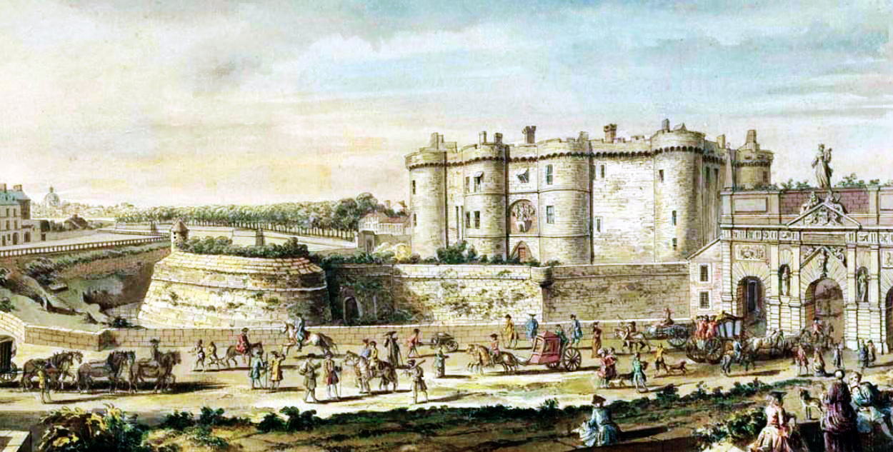 The Bastile, 1715-19